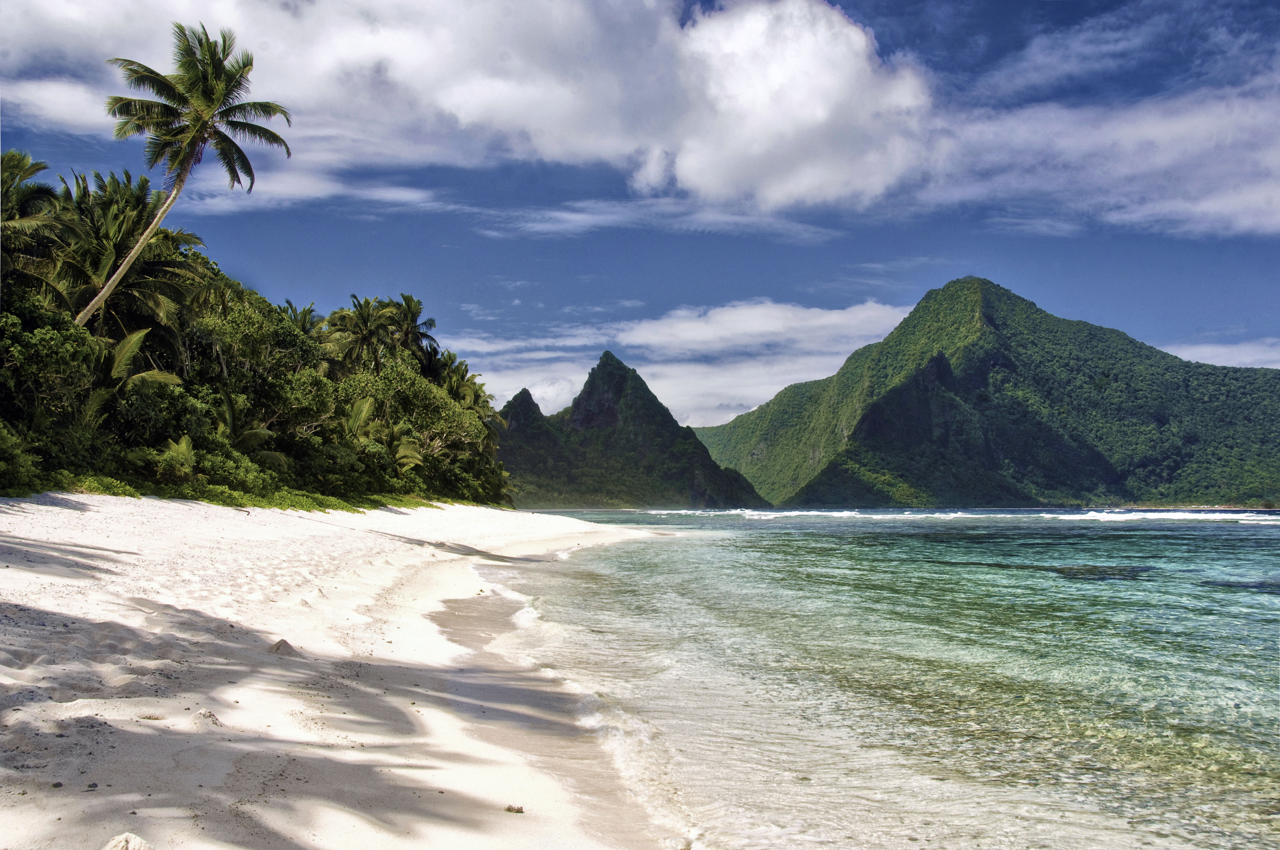 This is a photo of Ofu Beach on Ofu Island in the Manu'a Islands (in American Samoa). Photo made by U.S. National Park Service (public domain).